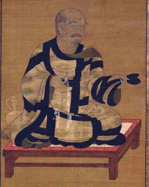 Vajrabodhi, 14th century, Kamakura, National Museum,Tokyo